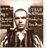 Theodore Durrant